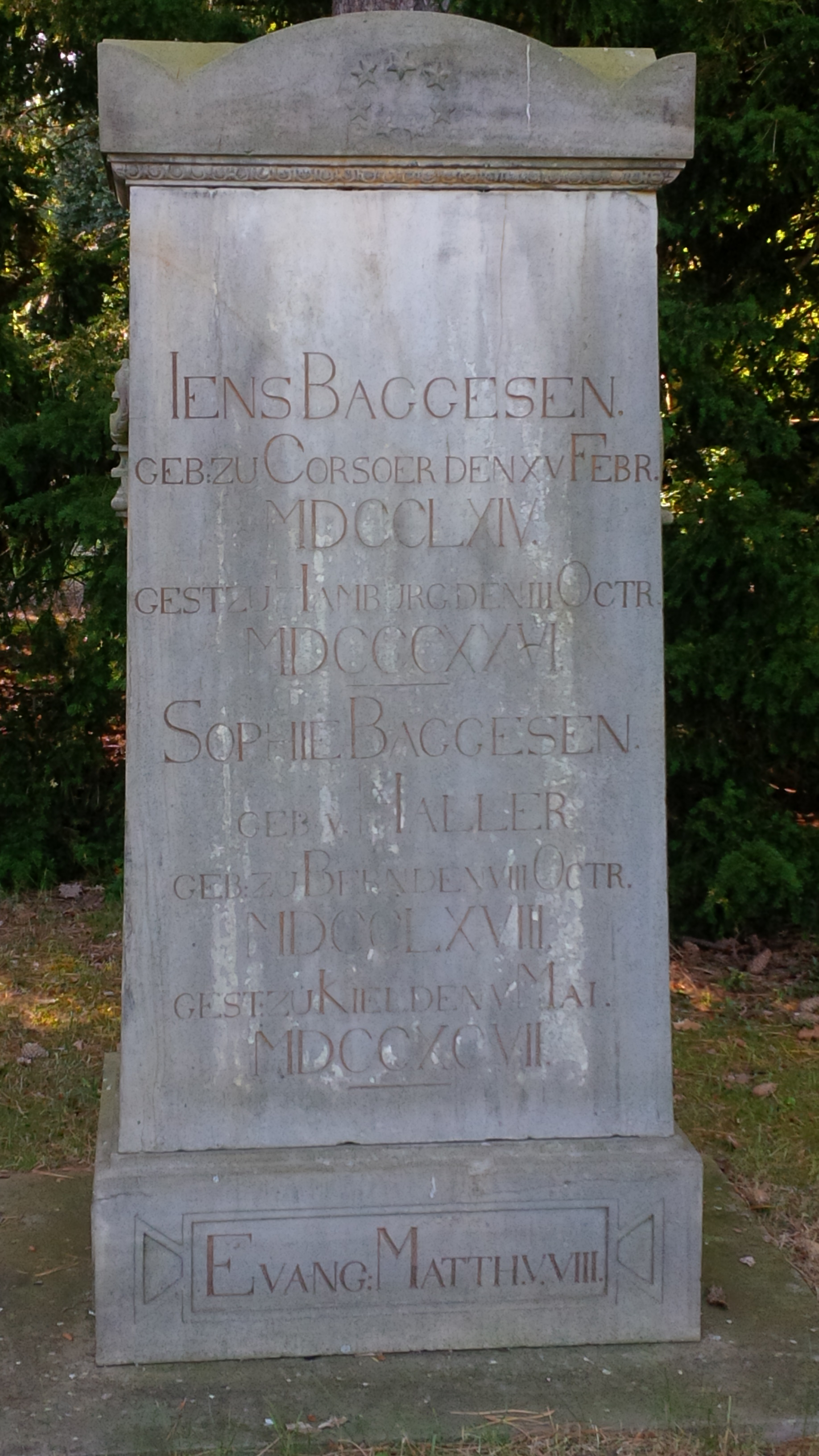 Gravesite Jens Immanuel Baggesen in Kiel Germany; Parkfriedhof Eichhof